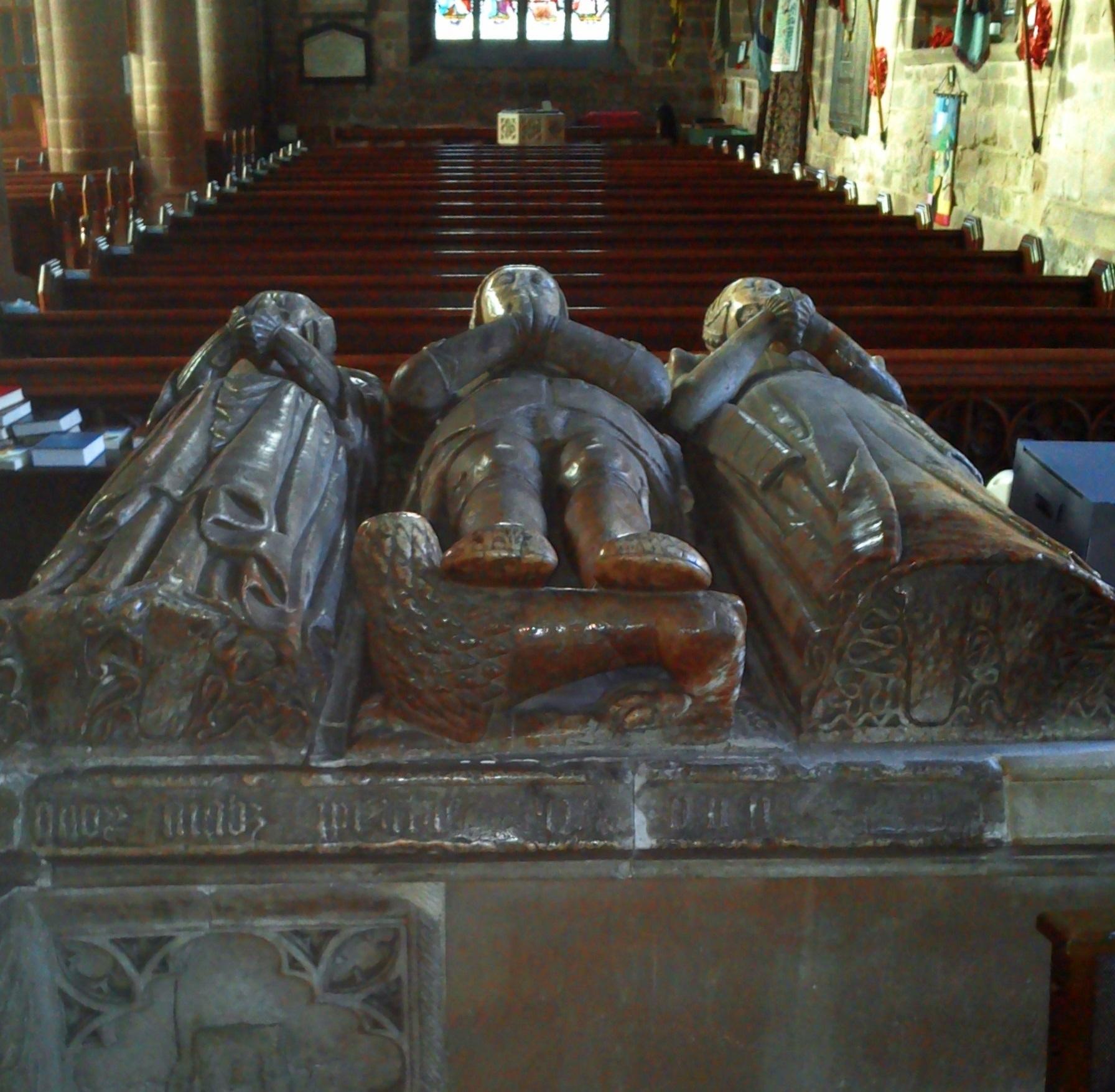 The tomb of Sir John Talbot, Knight, of Albrighton and Grafton (died 10 September 1549) and his two wives in the Chantry Chapel of St John the Baptist Church, Bromsgrove, Worcestershire. He was the son of Sir Gilbert Talbot, Knight, of Grafton (1452–1517/18), who supported the future King Henry VII in the Battle of Bosworth and was appointed a Knight of the Order of the Garter c. 1495. Sir John Talbot married (I) Margaret Troutbeck, and (II) Elizabeth Wrottesley († 1558), whose effigies are also on the tomb.